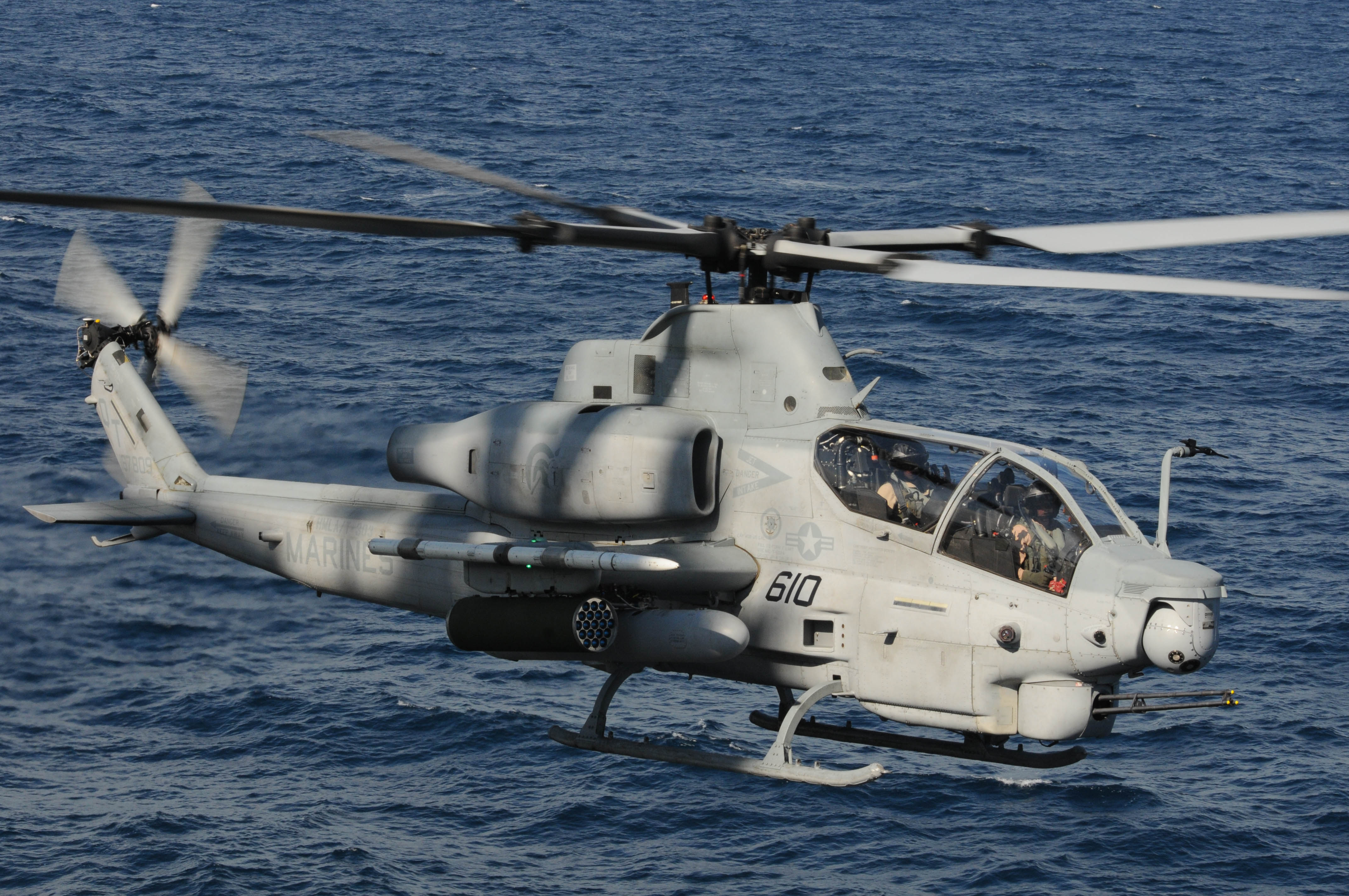 ATLANTIC OCEAN (Aug. 2, 2010) An AH-1Z Cobra helicopter assigned to Rotary Wing Aircraft Test Squadron (HX) 21, based in Patuxent River, Md., approaches the amphibious assault ship USS Wasp (LHD 1). This upgraded version of the Cobra is not yet available to the fleet. The helicopter features a larger engine and has two more blades than the Cobra's original two, giving it more power and maneuverability. Wasp is conducting test flight operations and was chosen as the platform to evaluate the limits and capabilities of newer models of aircraft. (U.S. Navy photo by Mass Communication Specialist 1st Class Rebekah Adler/Released)